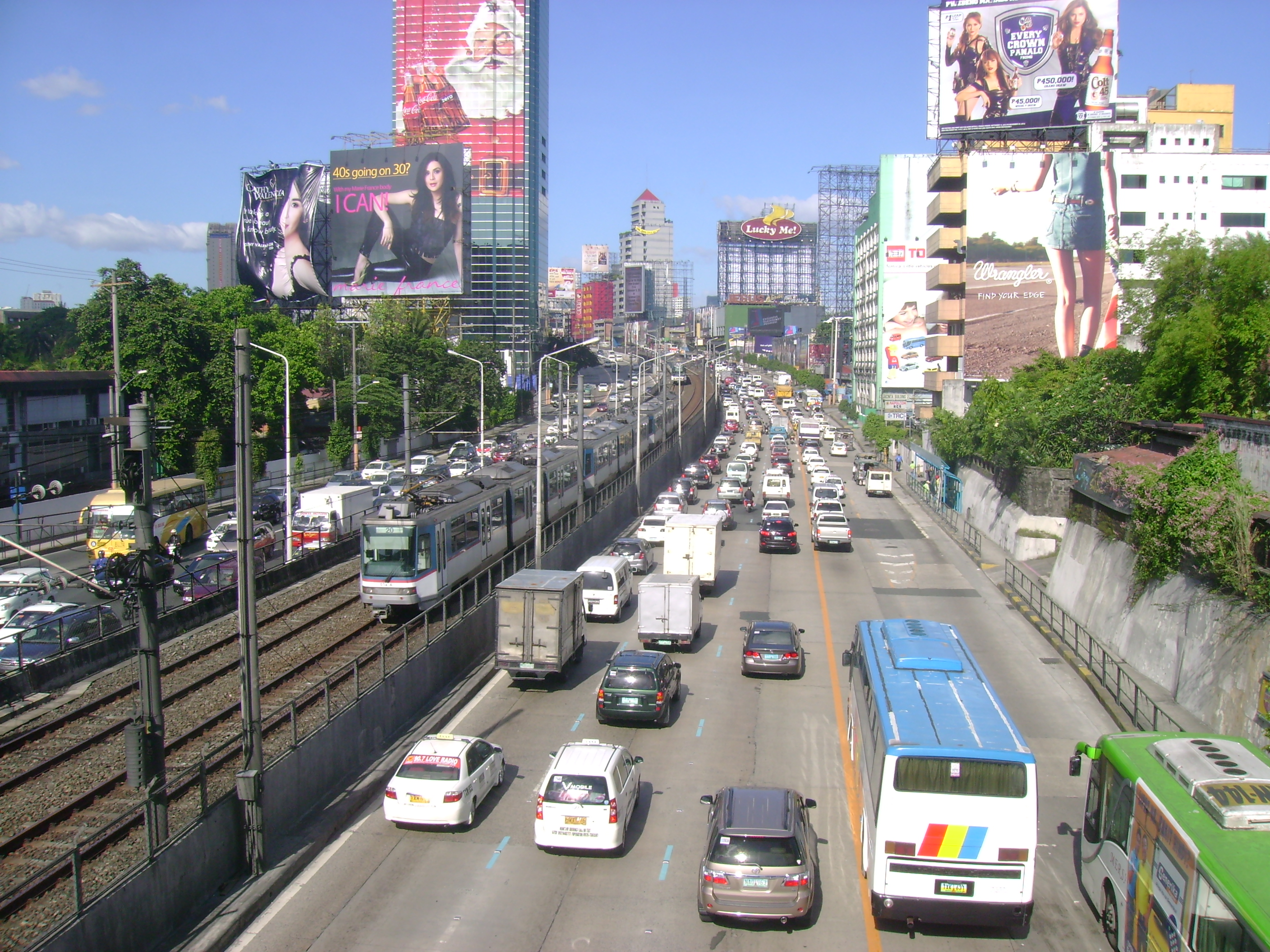 EDSA-Guadalupe, Makati City